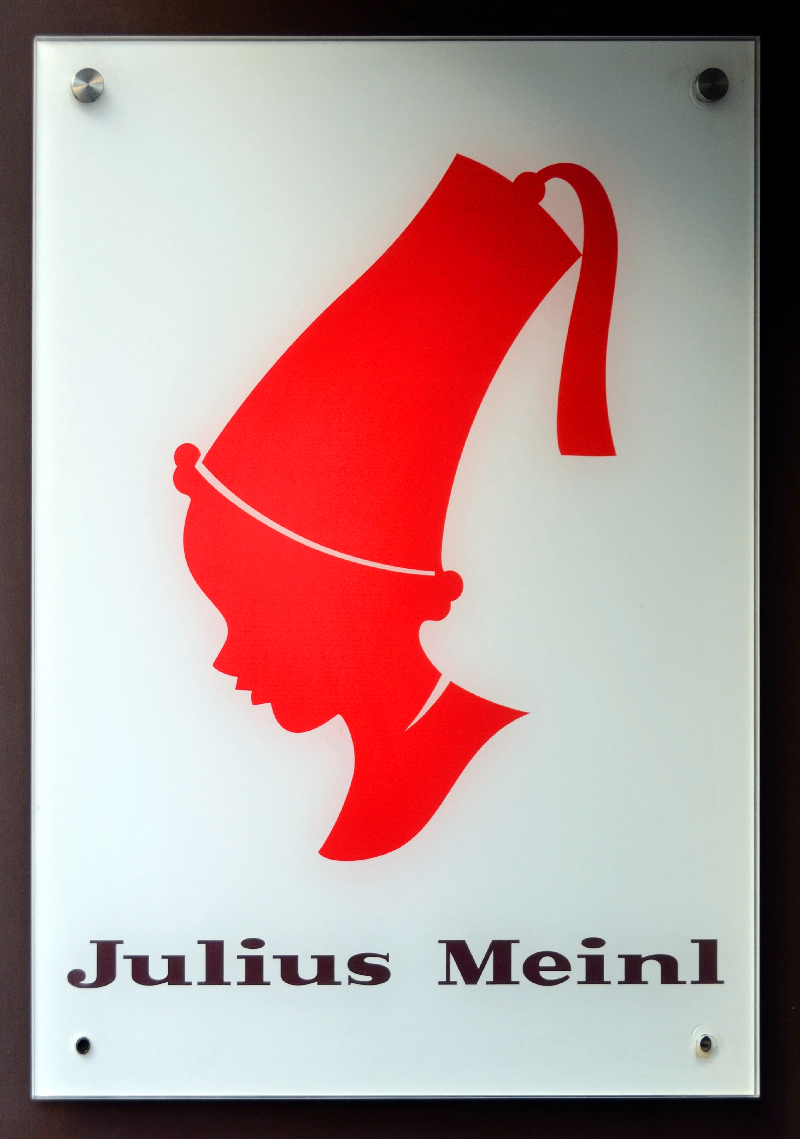 The logo of the former coffee company Julius Meinl outside a shop entrance in the Operngasse, Vienna.